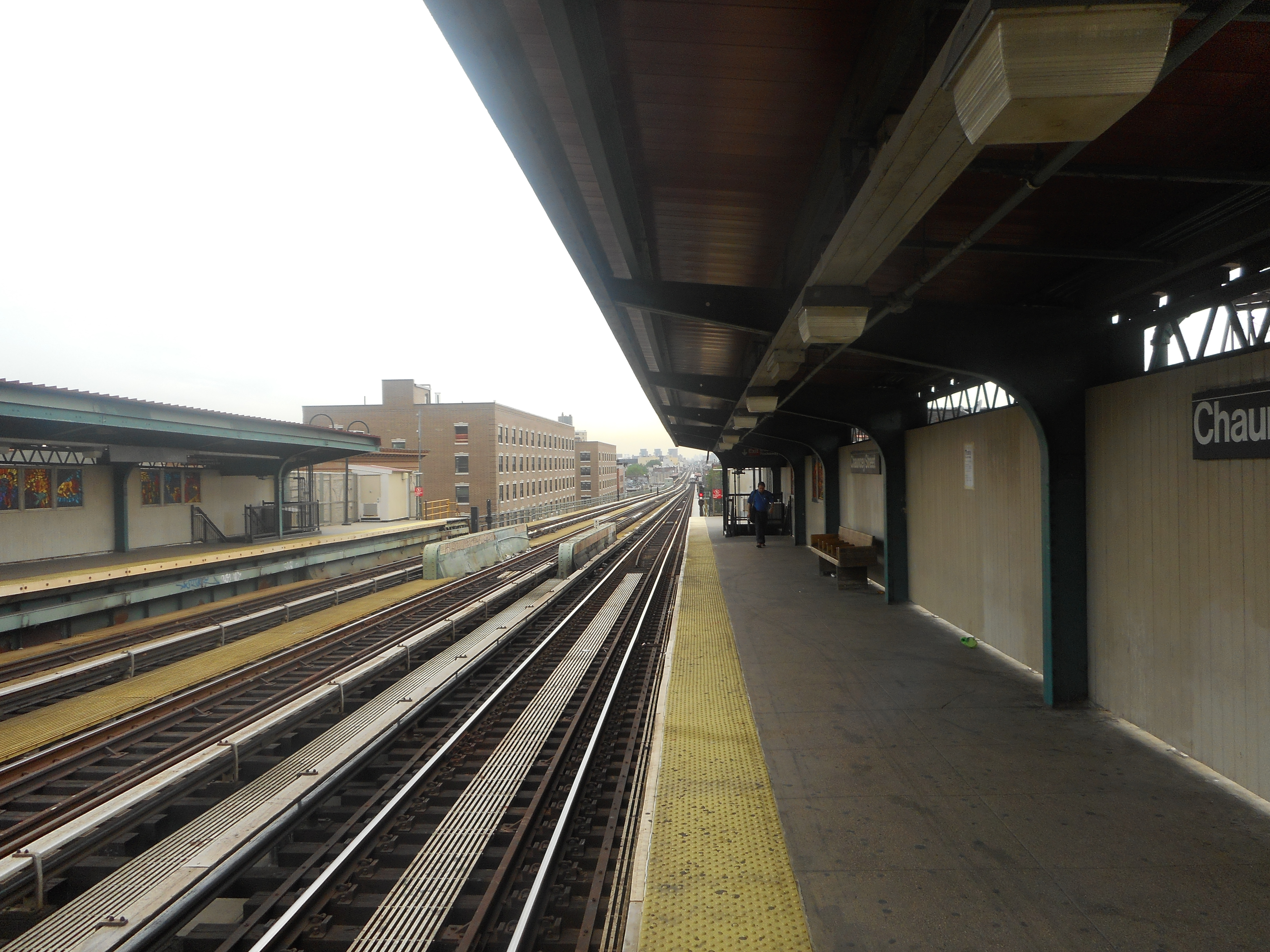 Additional photo of the Chauncey Street Elevated Station on the BMT Jamaica Line. Further details and a rename to come later.